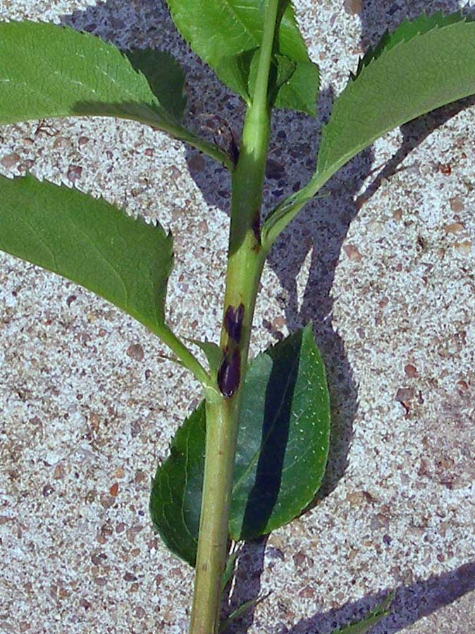 brown spot infection symptoms on twig from pear